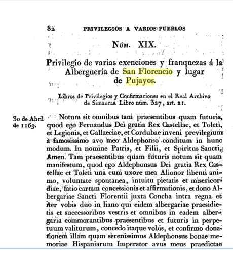 Privilegios